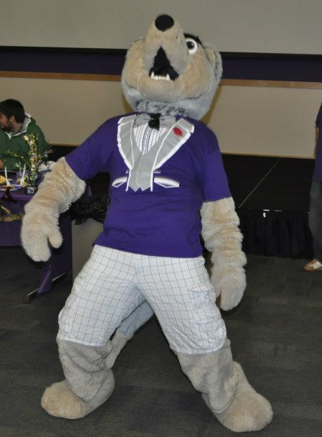 Hendrix the husky of UW Tacoma